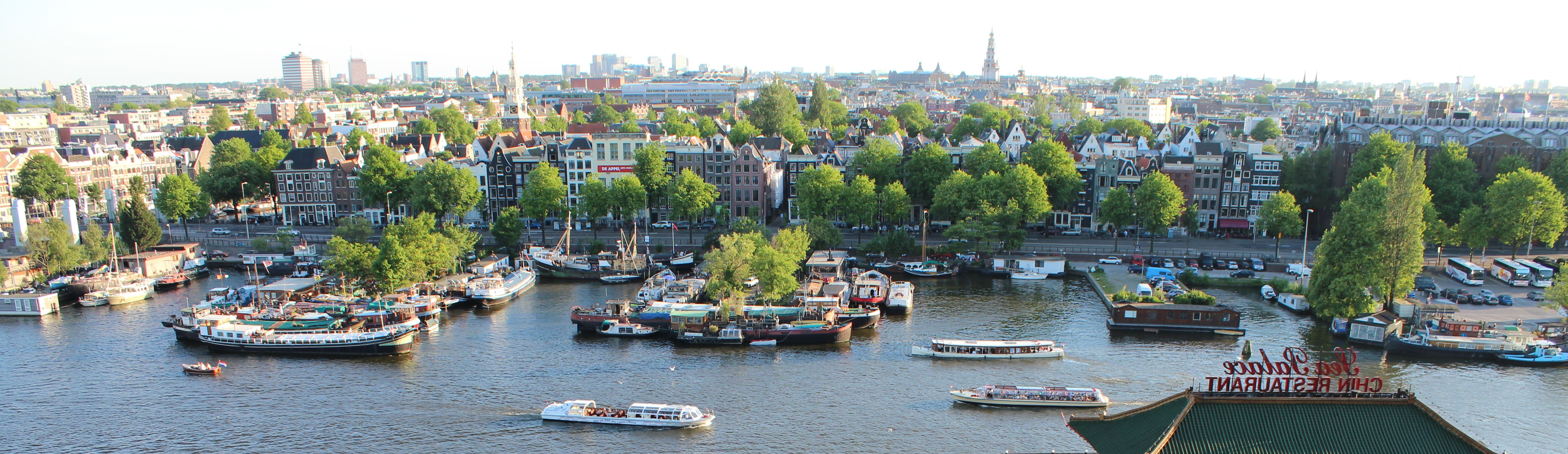 A view of the Oosterdok from the Amsterdam Public Library.